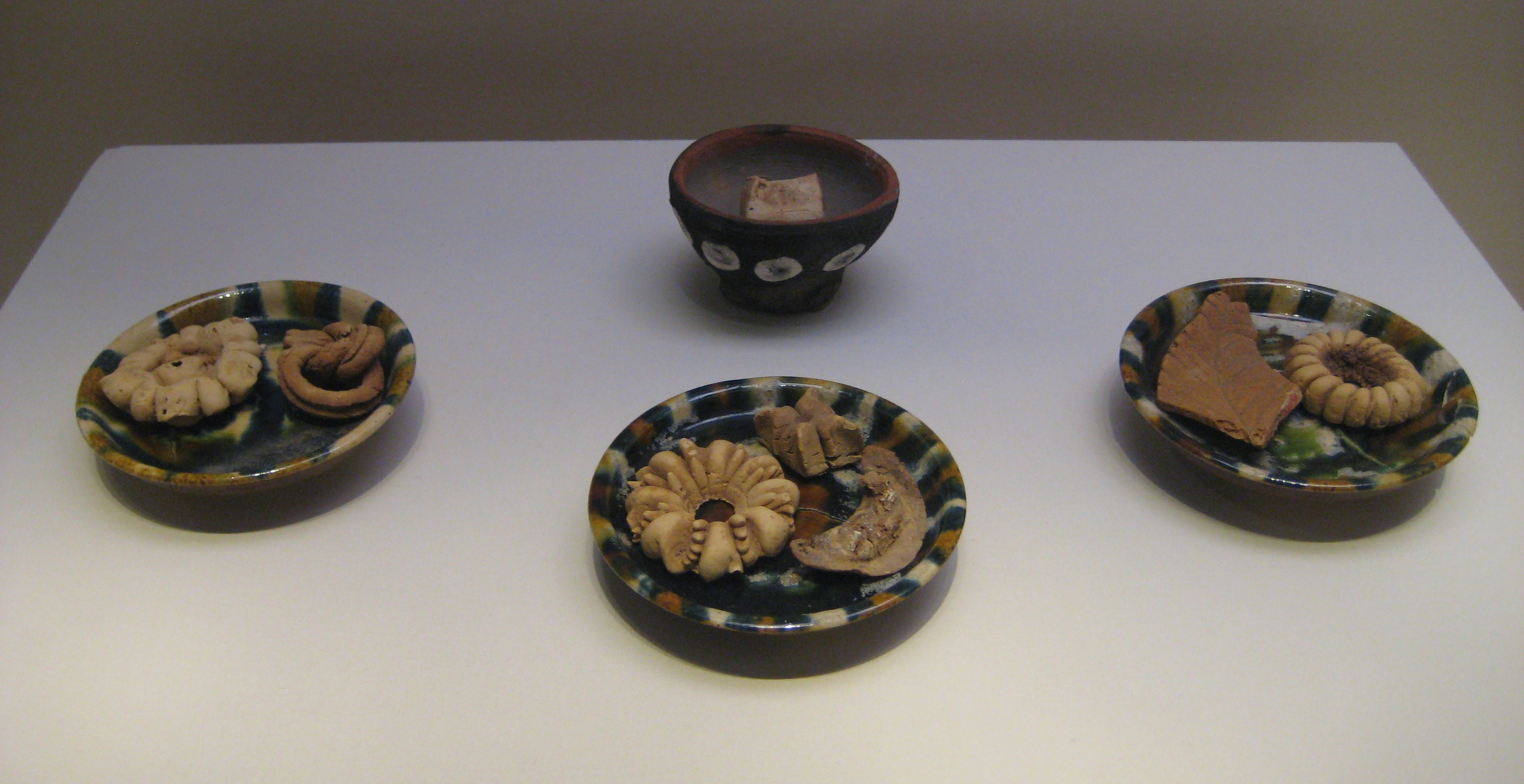 Ceramic dumplings and delicacies from a Tang Dynasty tomb. Unearthed at Turpan, Xinjiang, 1972. National Museum of China.